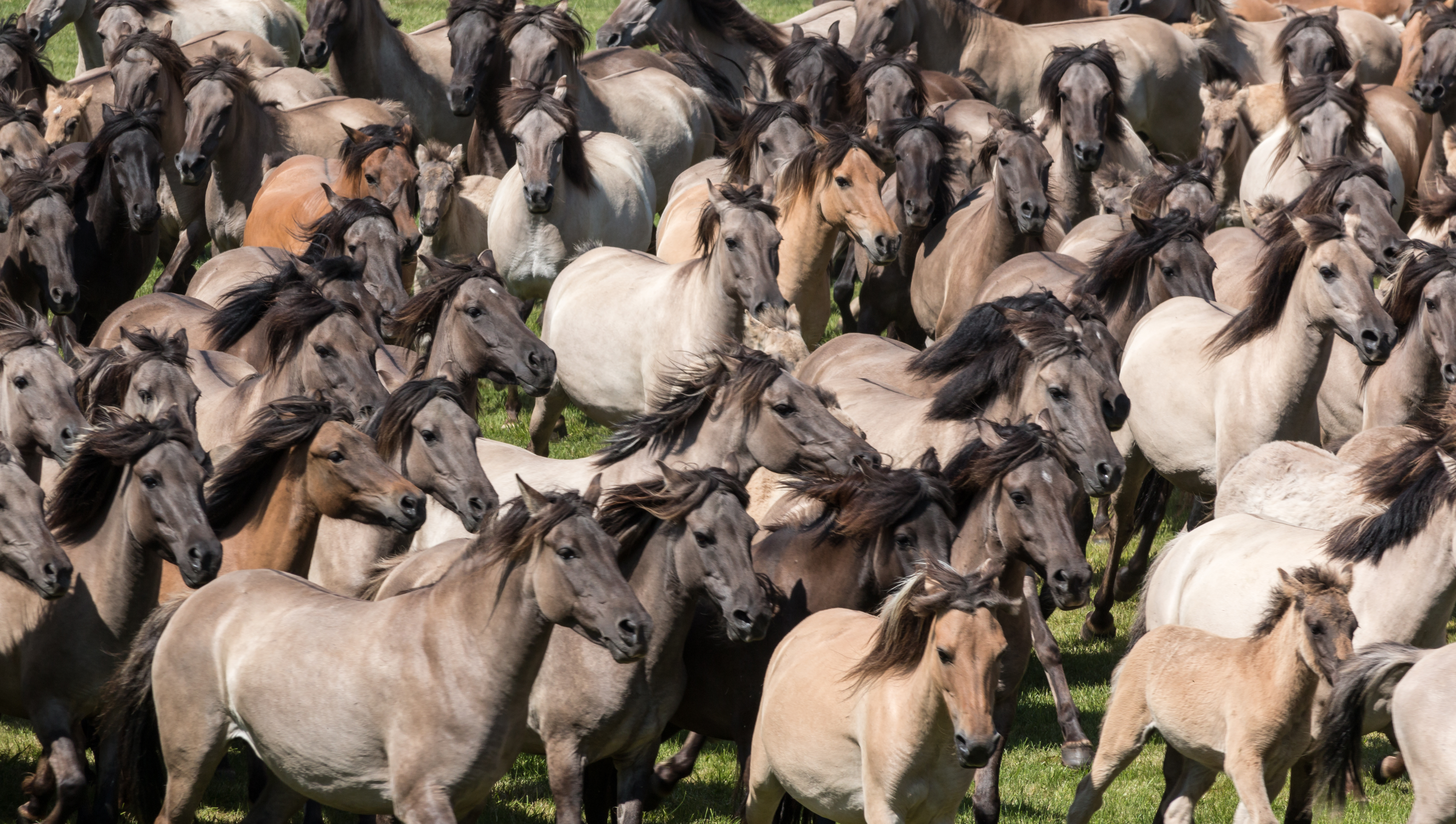 Feral Dülmen Ponies in the Wildpferdebahn, Merfelder Bruch, Dülmen, North Rhine-Westphalia, Germany; Wildpferdefang 2014